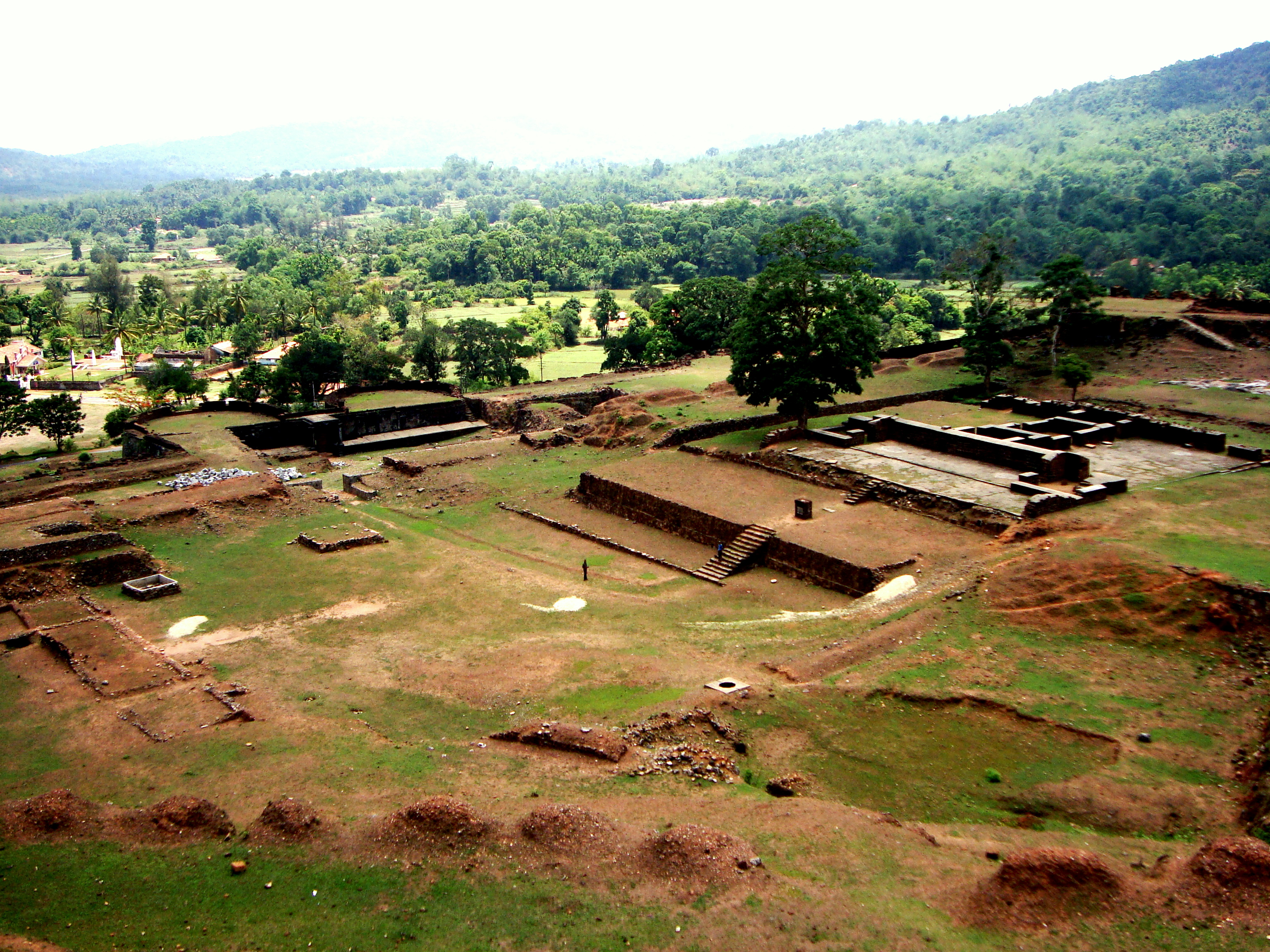 Palace site Outside the Fort